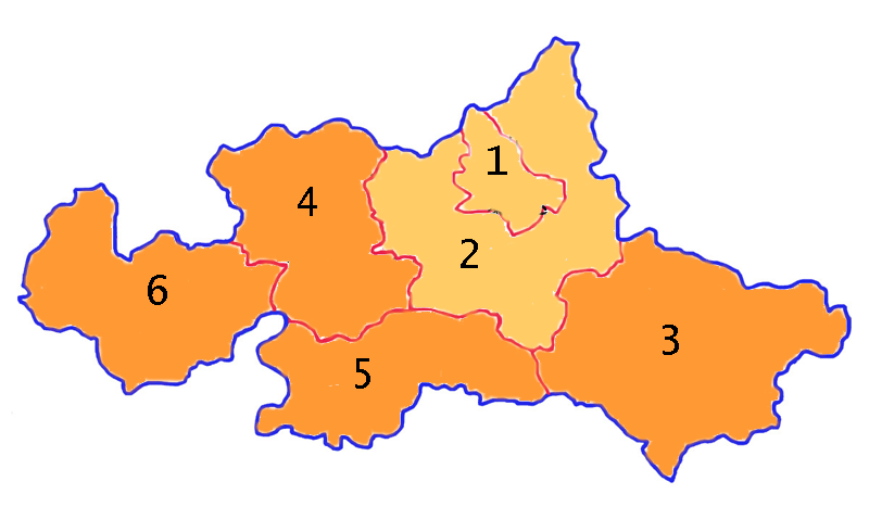 Municipalities of Taian city in Shandong province, China